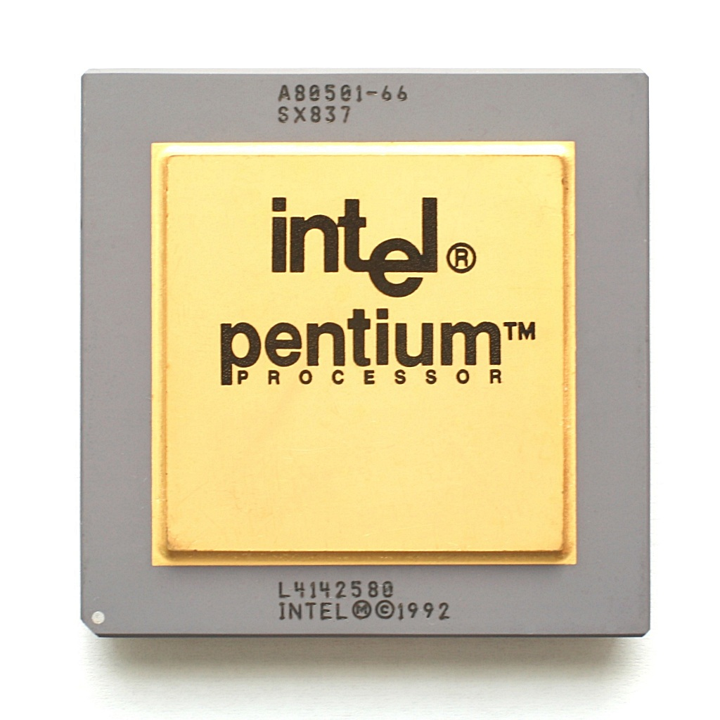 CPU Intel Pentium A80501 with GoldCap, 66 MHz, Vcore = 5V, SX837 = with FDIV-Bug